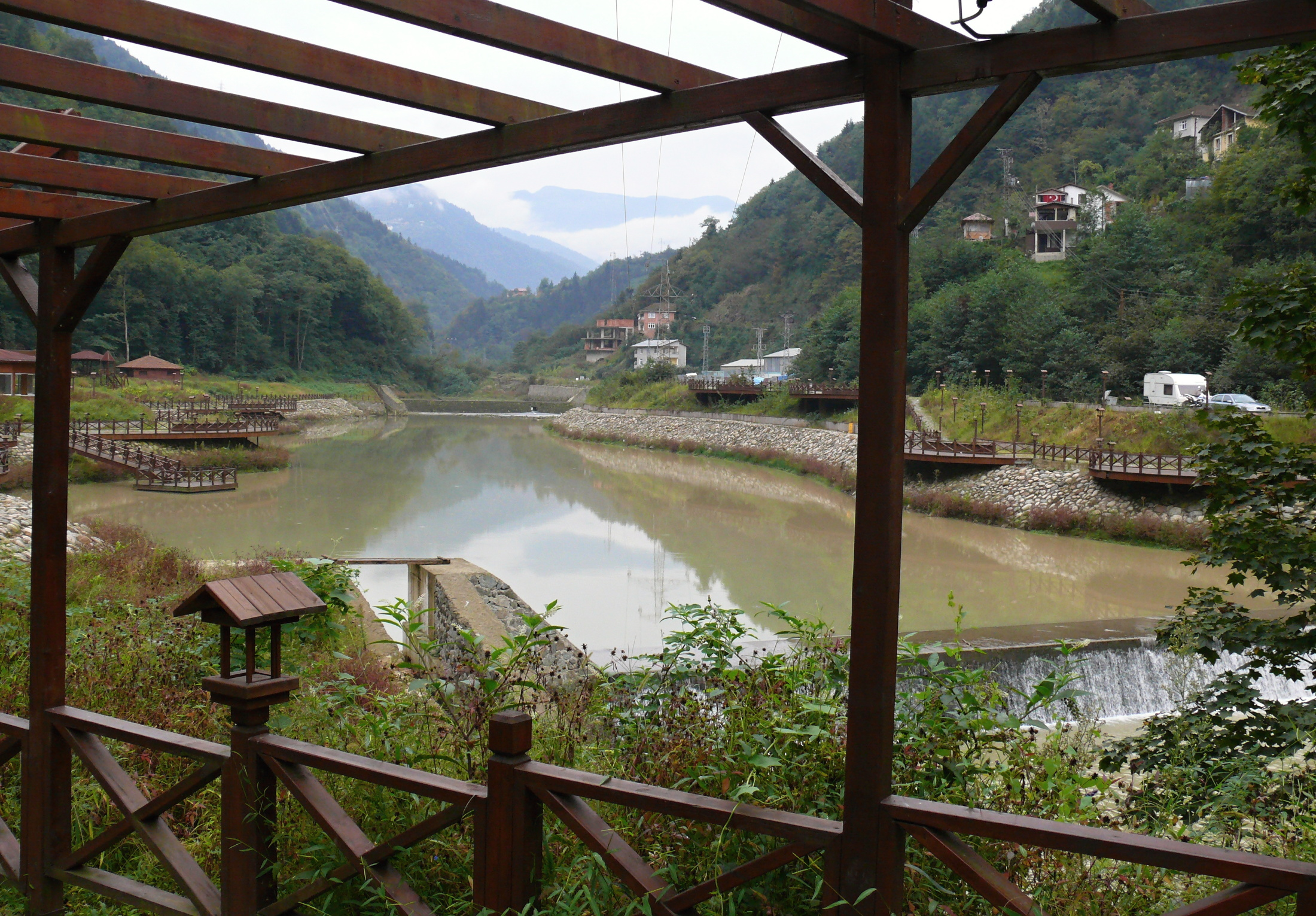 Solaklı Çayı from Kiremitli Köprü 2015. Upstream view.